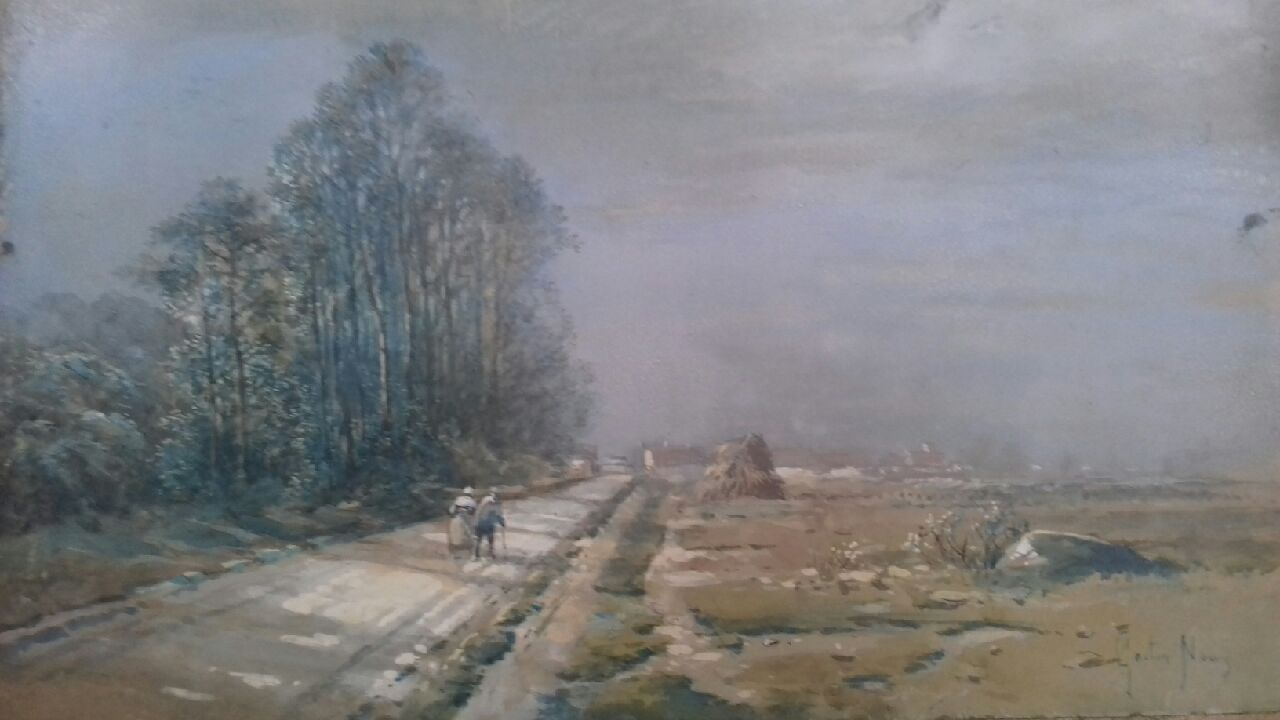 Gaston Noury.